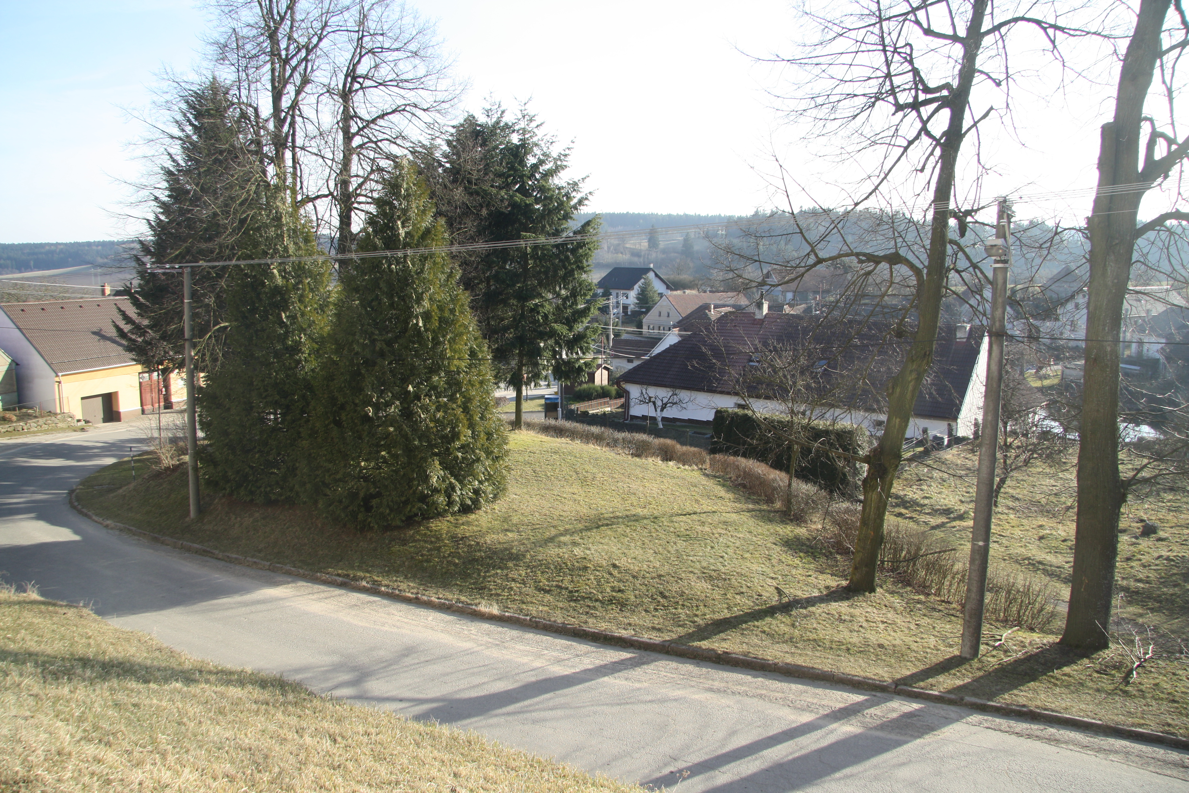 Center of Benetice in 2015, Třebíč District.